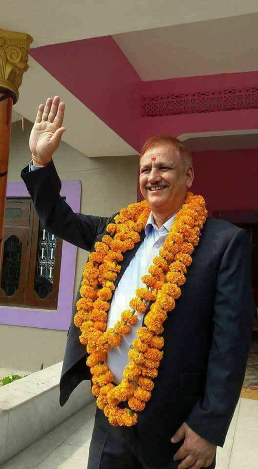 Nepalese politician, belonging to the Communist Party of Nepal (Maoist). In the 2008 Constituent Assembly election he was elected from the Kailali-5 constituency, winning 17979 votes. डोटेली: Lekhraj